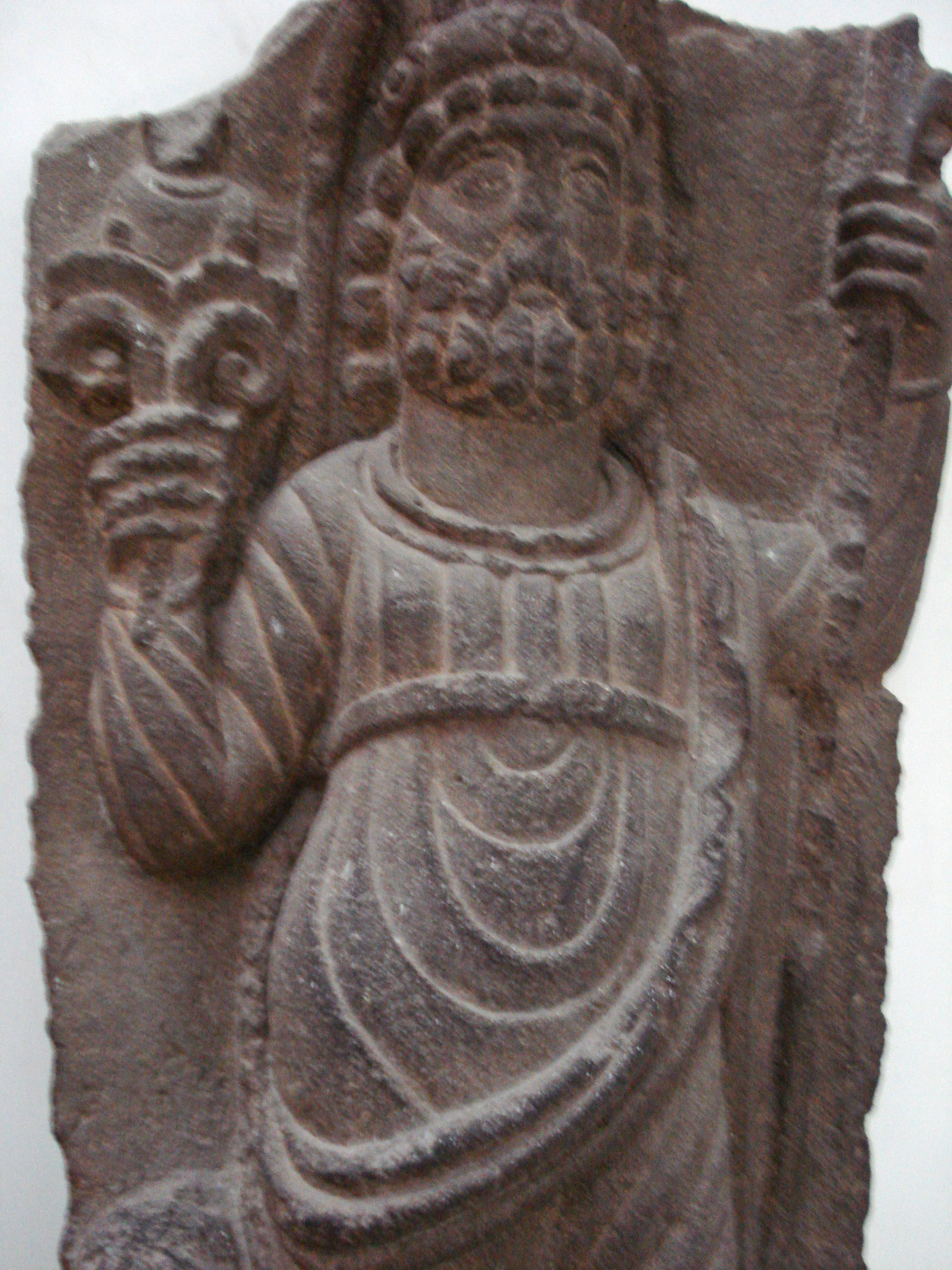 Dushara one of the Arabian gods, found in Southern Syria (National Museum of Damascus)